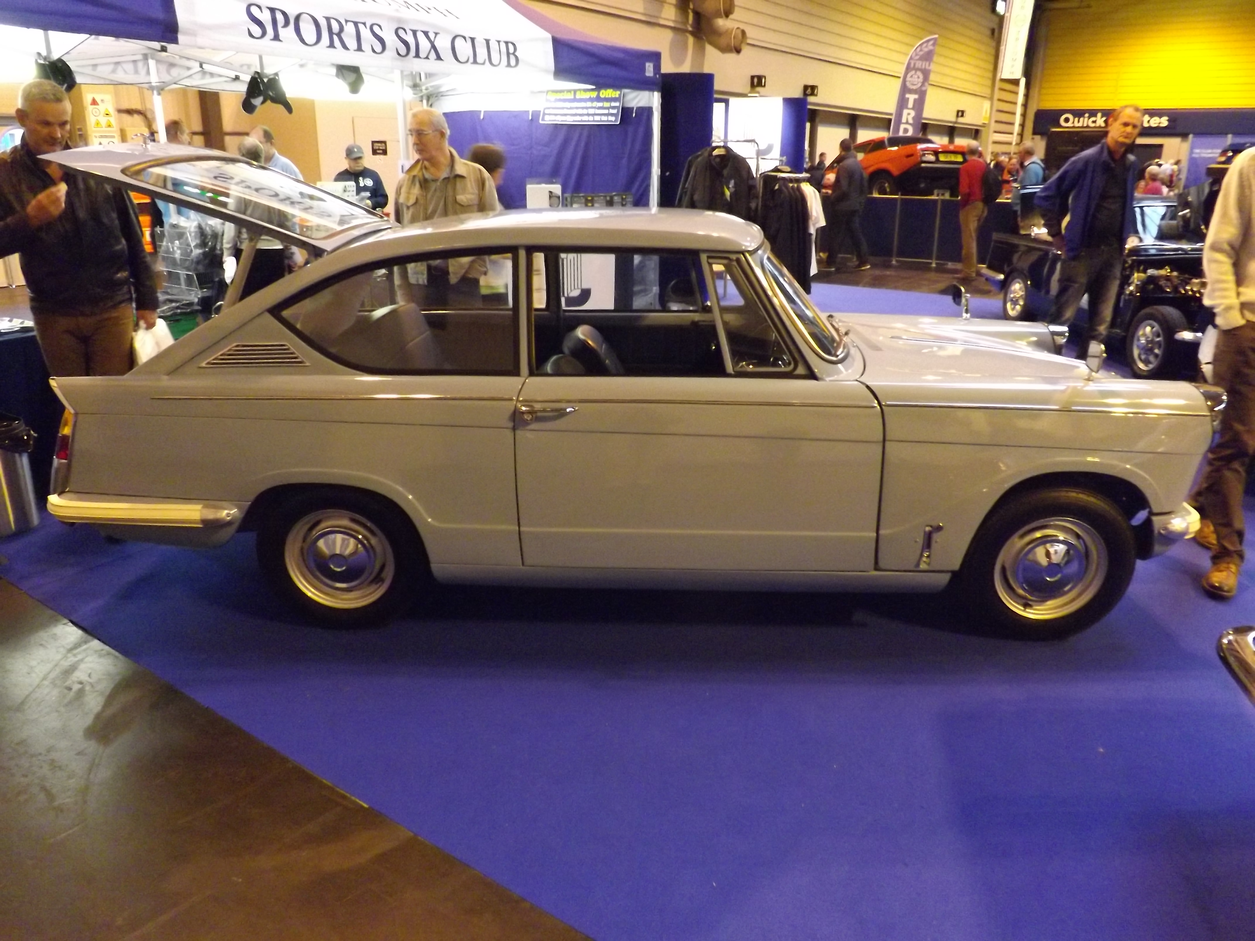 Triumph Herald hatchback prototype. The rear window styling was different on each side.